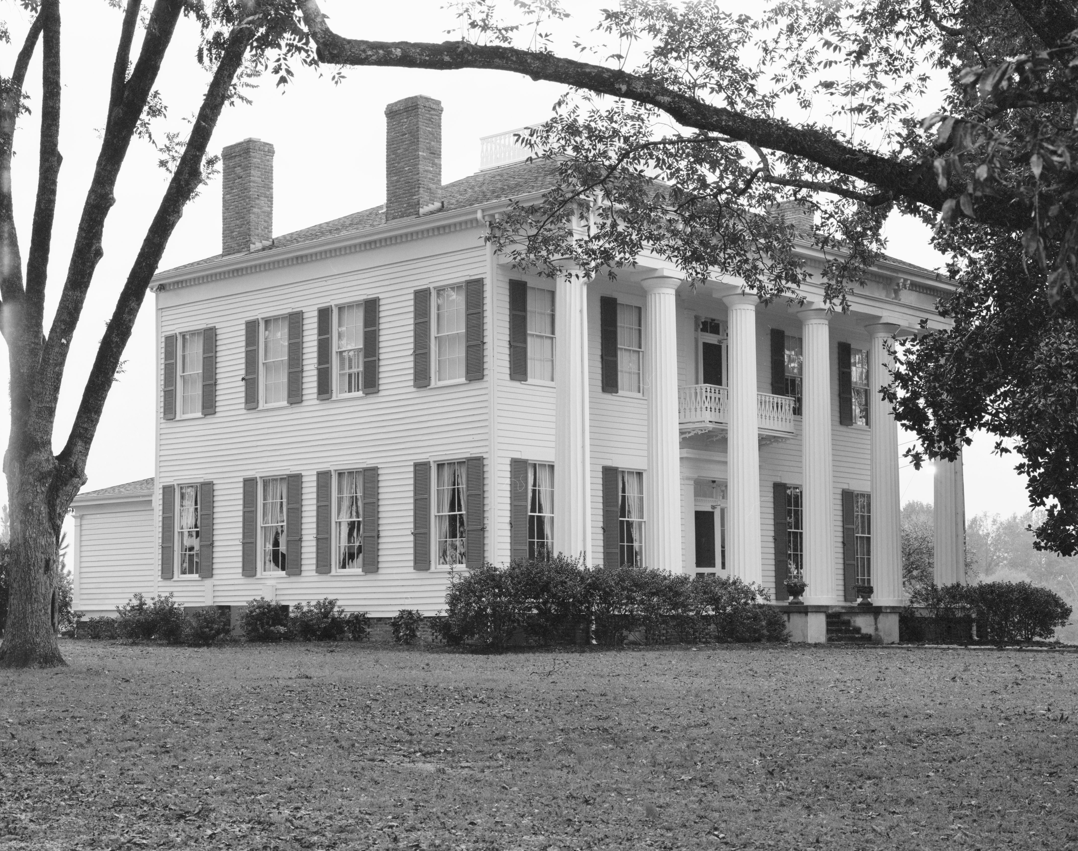 Warren Stone House, County Highway 40 west of County Highway 37, Burkville vicinity, Lowndes County, AL. 45 degree view from northeast, front. More info from HABS:The Warren Stone House is a two-story frame structure built ca. 1840. It was the center of a large antebellum plantation in Lowndes County.